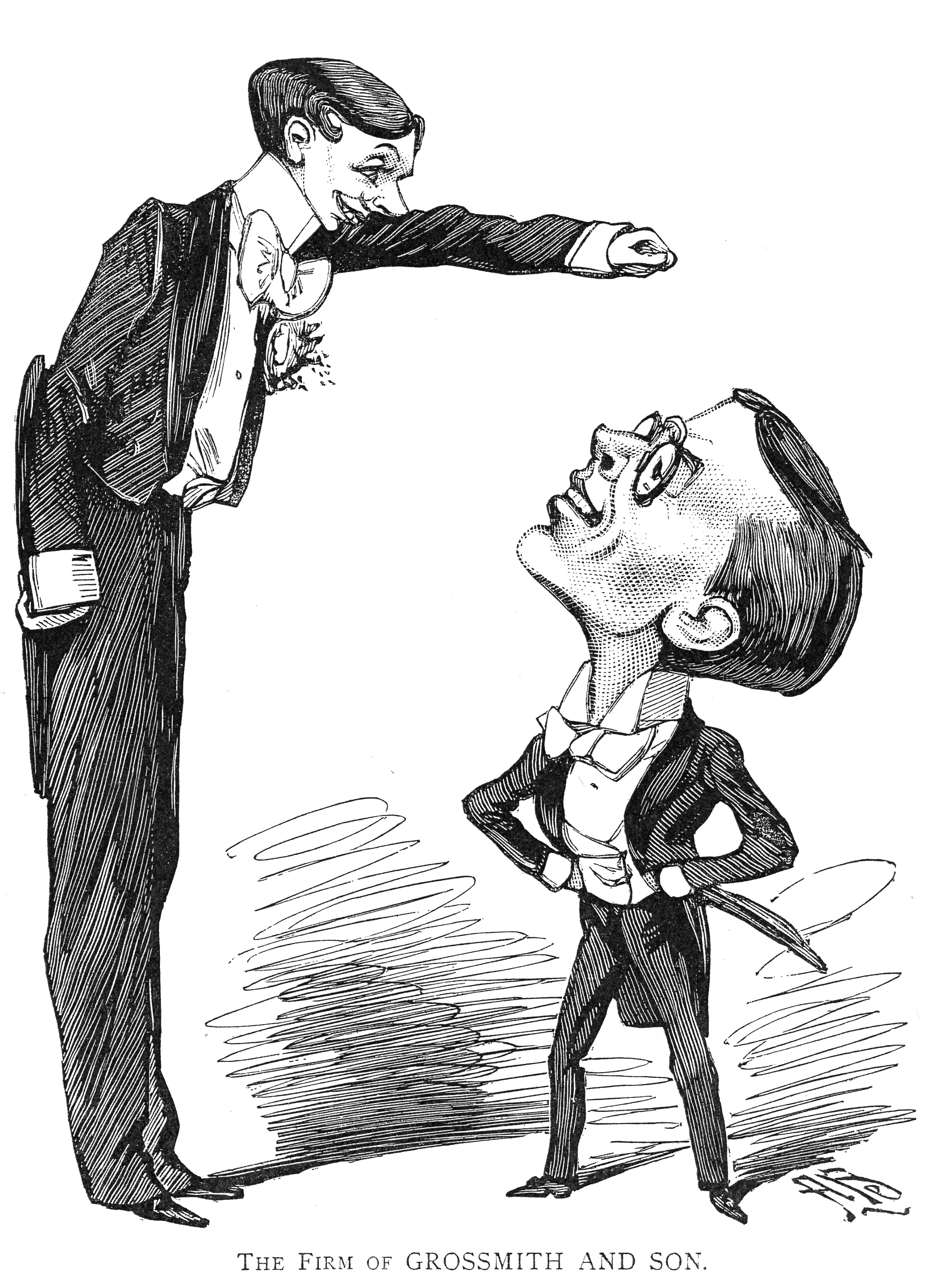 "The Firm of Grossmith and Son" - George Grossmith and George Grossmith, Jr, were both fantastically successful in the theatre.